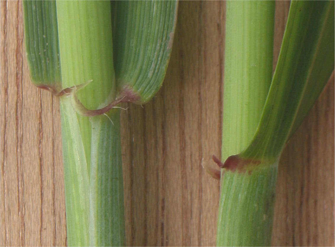 Triticum aestivum auricles